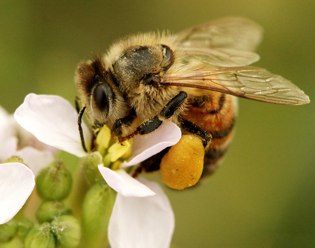 Western honey bee